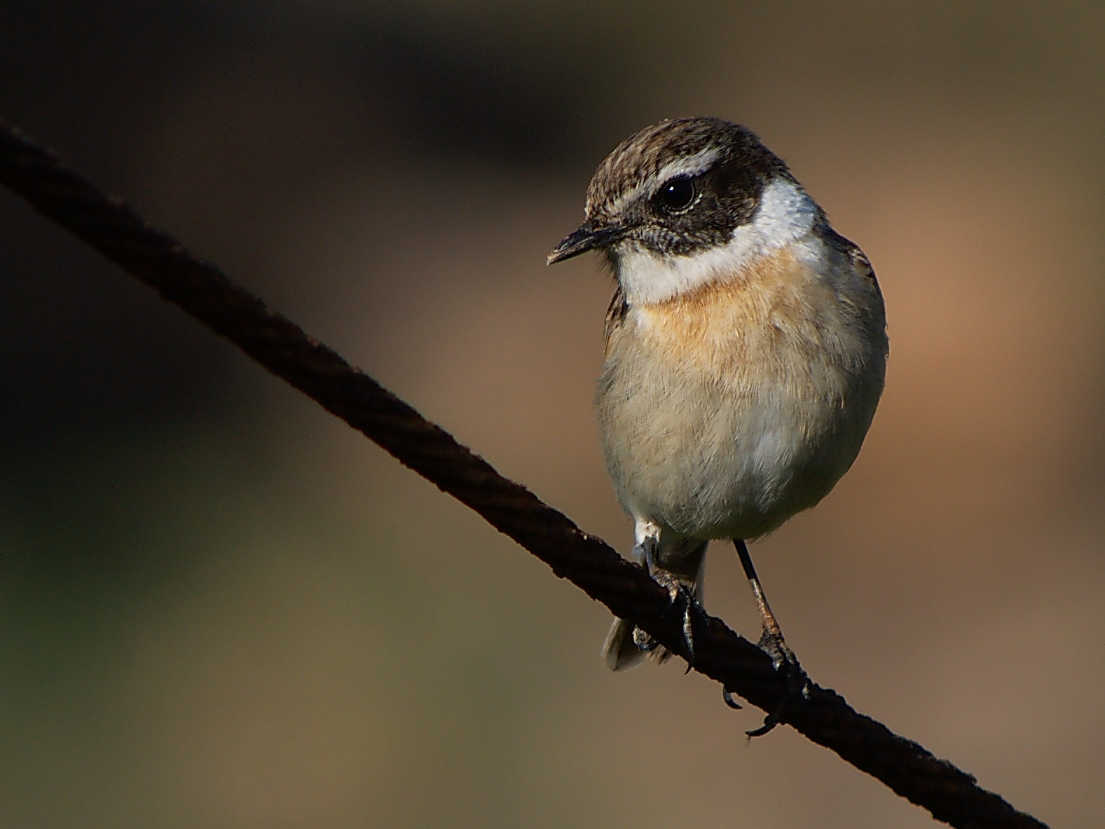 A male Fuerteventura Chat (also known as Fuerteventura Stonechat) in Fuerteventura, Canary Islands, Spain.